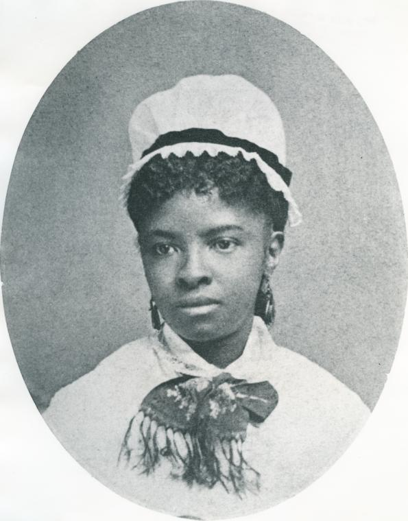 Mary Eliza Mahoney (April 16, 1845 – January 4, 1926), the first African American to study and work as a professionally trained nurse in the United States